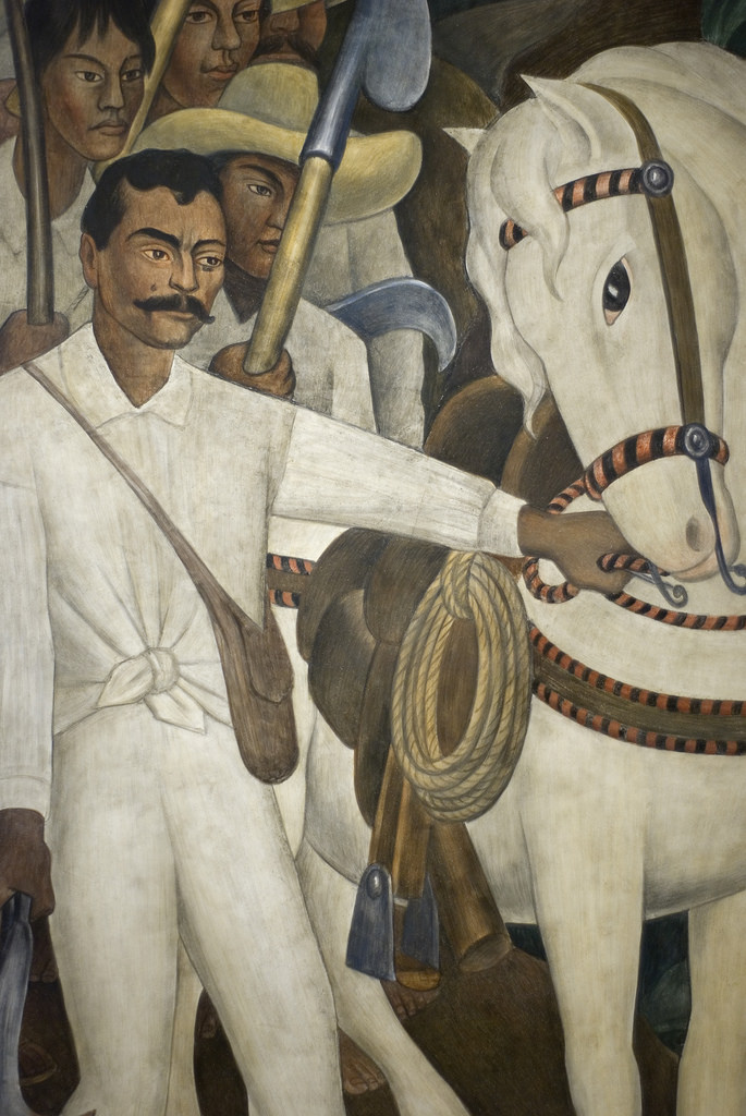 Mexican revolutionary leader Zapata with his horse